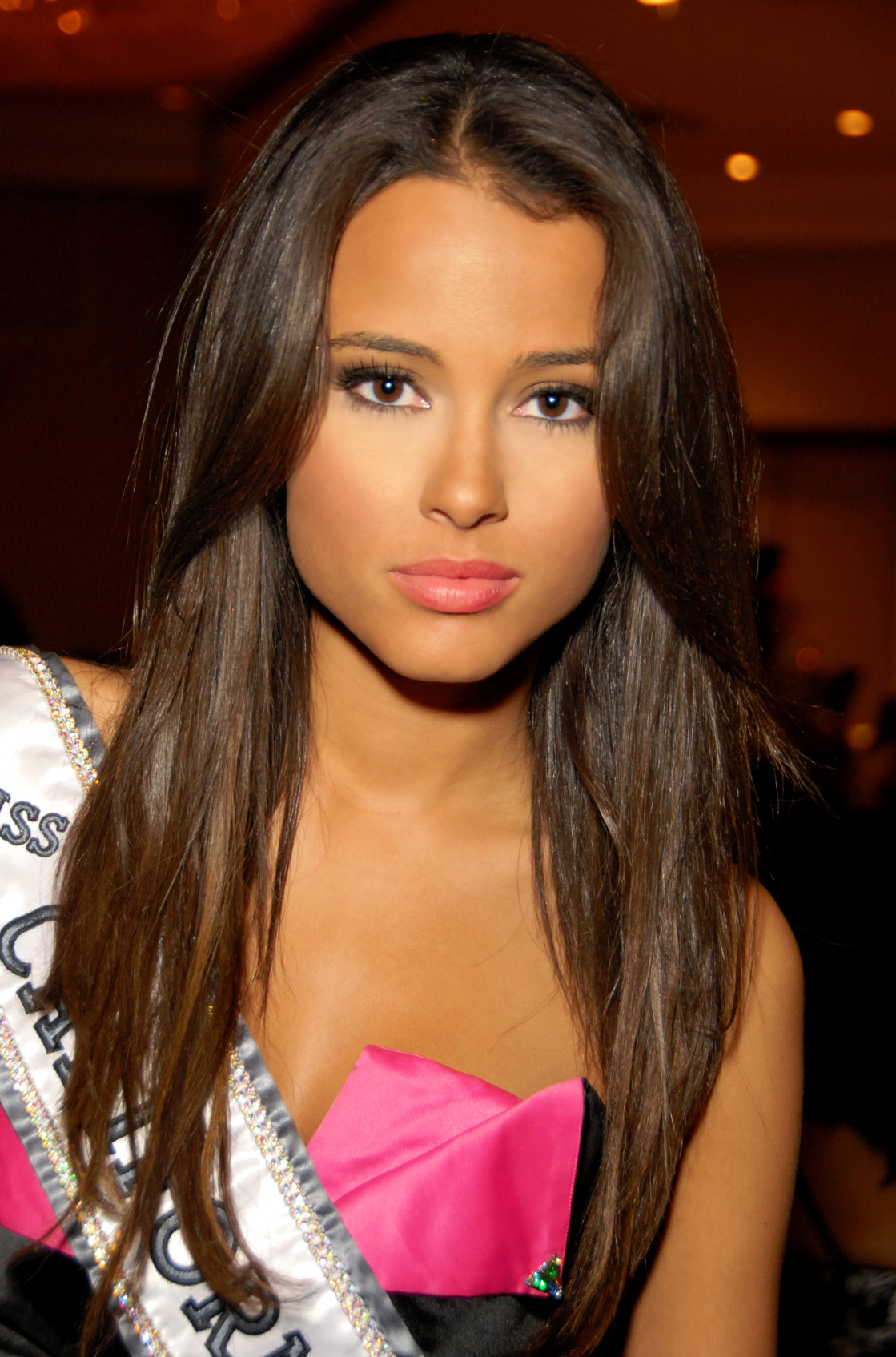 Chelsea Gilligan attending the Miss California Teen USA 2010 "Beauty of California Dinner" at The Riviera Resort & Spa, Palm Springs, CA on Nov. 21, 2009 - Photo by Glenn Francis of